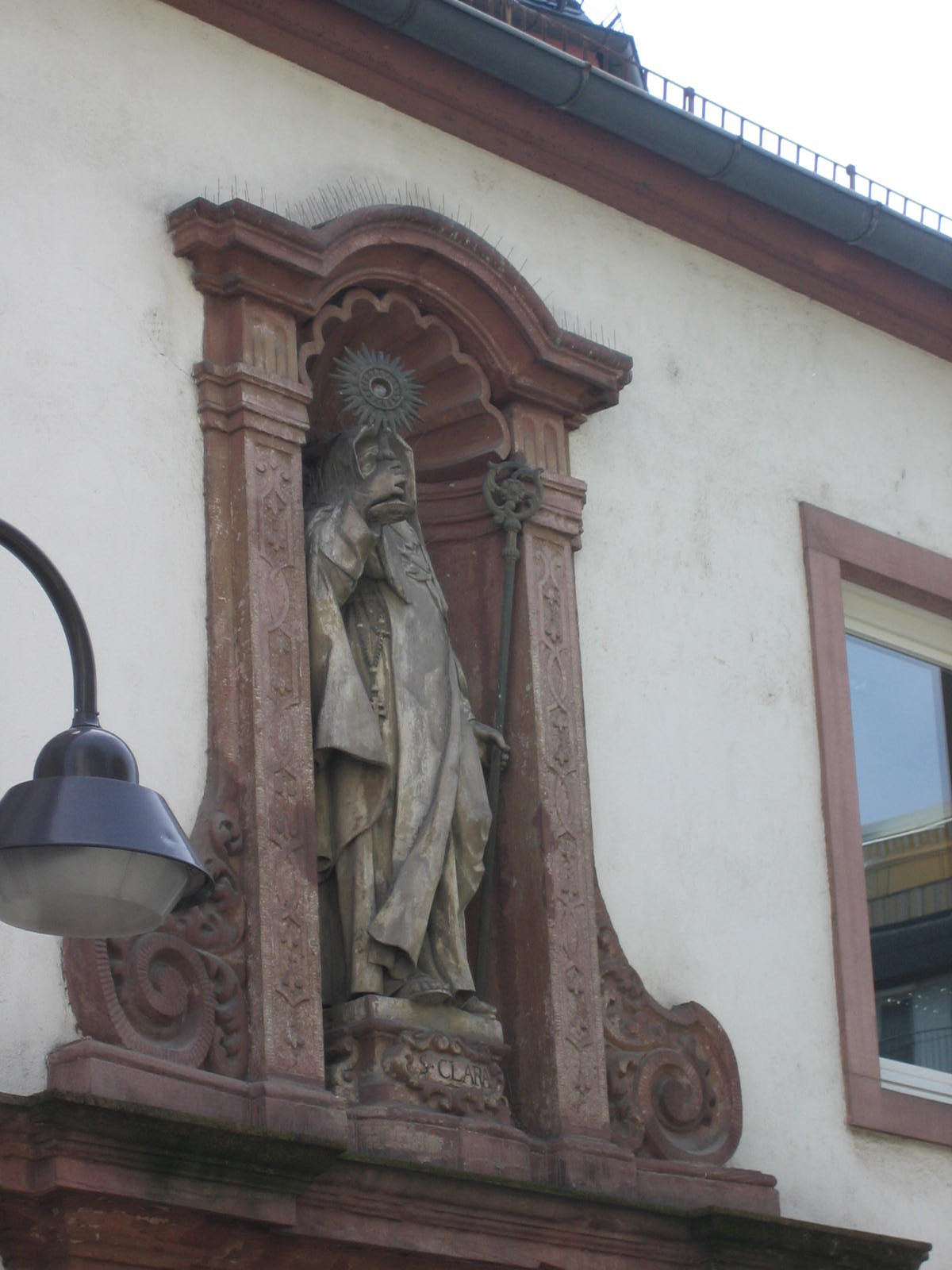 Front gate sculpture of Saint Clare of Assisi, Armklarakloster, Mainz; Burkard Zamels, 1724–27